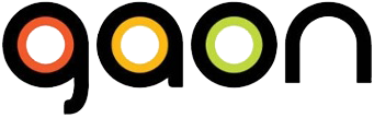 Logo for the Korean music chart, Gaon Music Chart